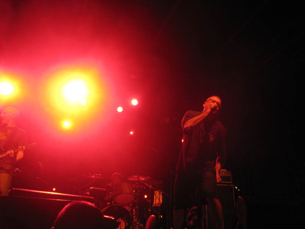 Descendents performing in Austin, Texas on November 7, 2010